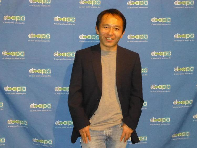 At Couch screening at Washington DC